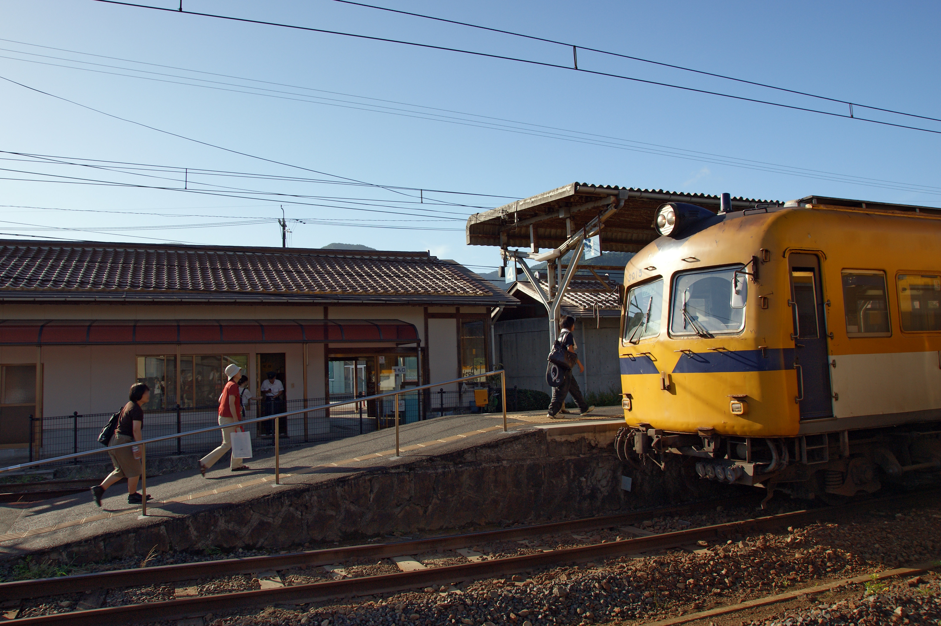 Kawato Station in Izumo, Shimane prefecture, Japan